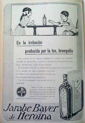 Heroin Advert in Spanish Newspapers (1912)